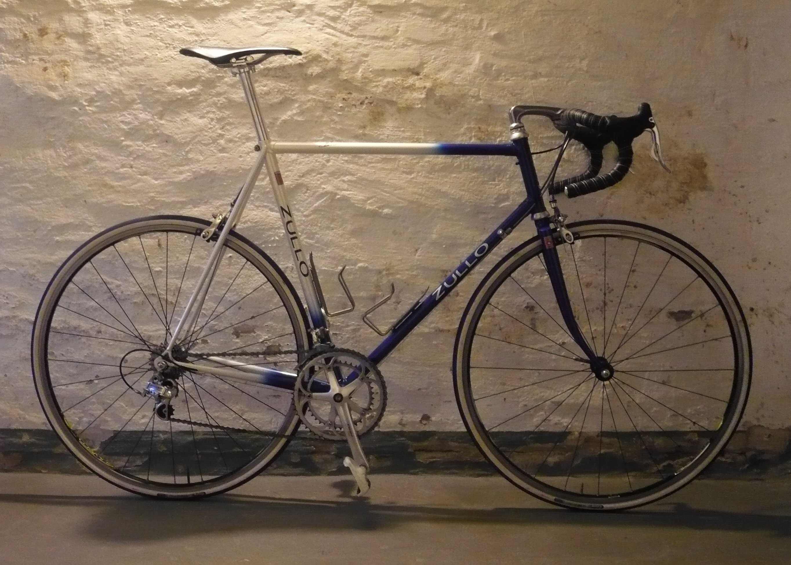 Zullo road race bike made of Columbus steel tubes